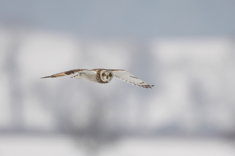 Short-eared Owl (Asio flammeus)